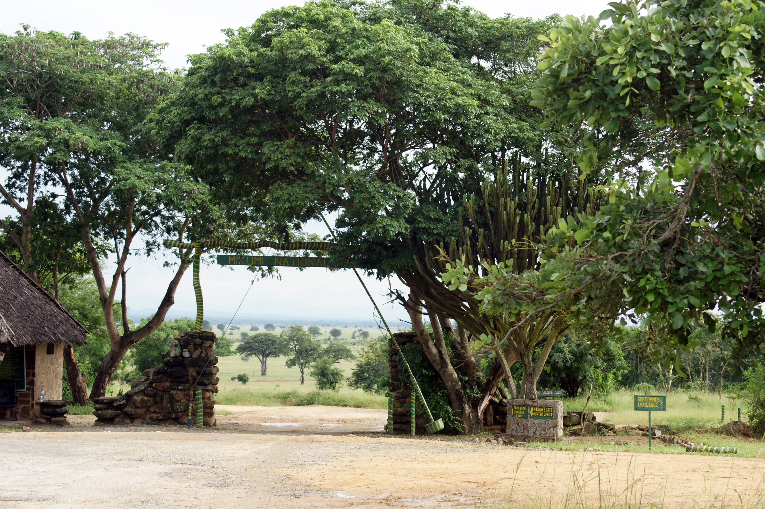 Entrance into Mikumi National Park Tanzania